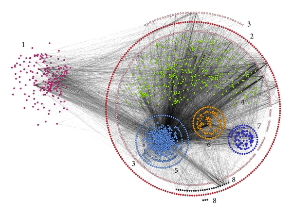 Proteins are grouped based on their subcellular location in the network of the human plasma membrane peripheral proteins. 1: secreted proteins, 2: membrane proteins, 3: peripheral proteins, 4: cytoplasmic proteins, 5: nuclear proteins, 6: endomembrane system proteins, 7: mitochondrial proteins, and 8: lipid-anchored proteins. The membrane proteins of organelles and the endomembrane system are forming circles around the other proteins of the organelles. Proteins with unknown subcellular location are hidden in this view of the network.